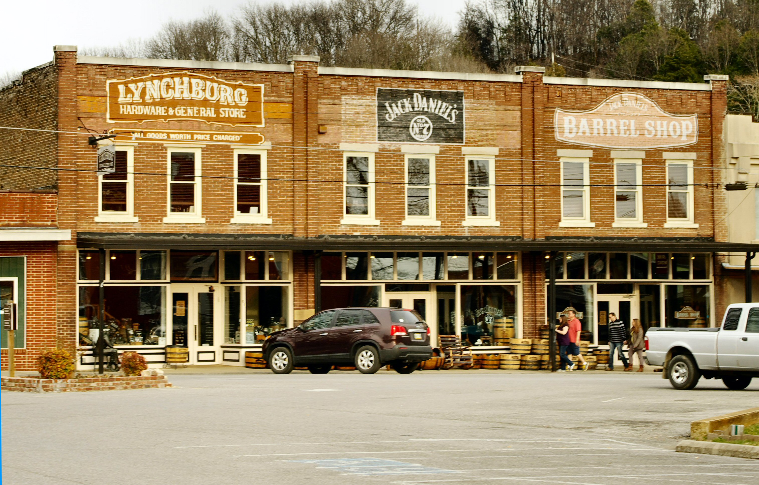 Commercial block on the courthouse square in Lynchburg, Tennessee, United States; this block was built in 1913